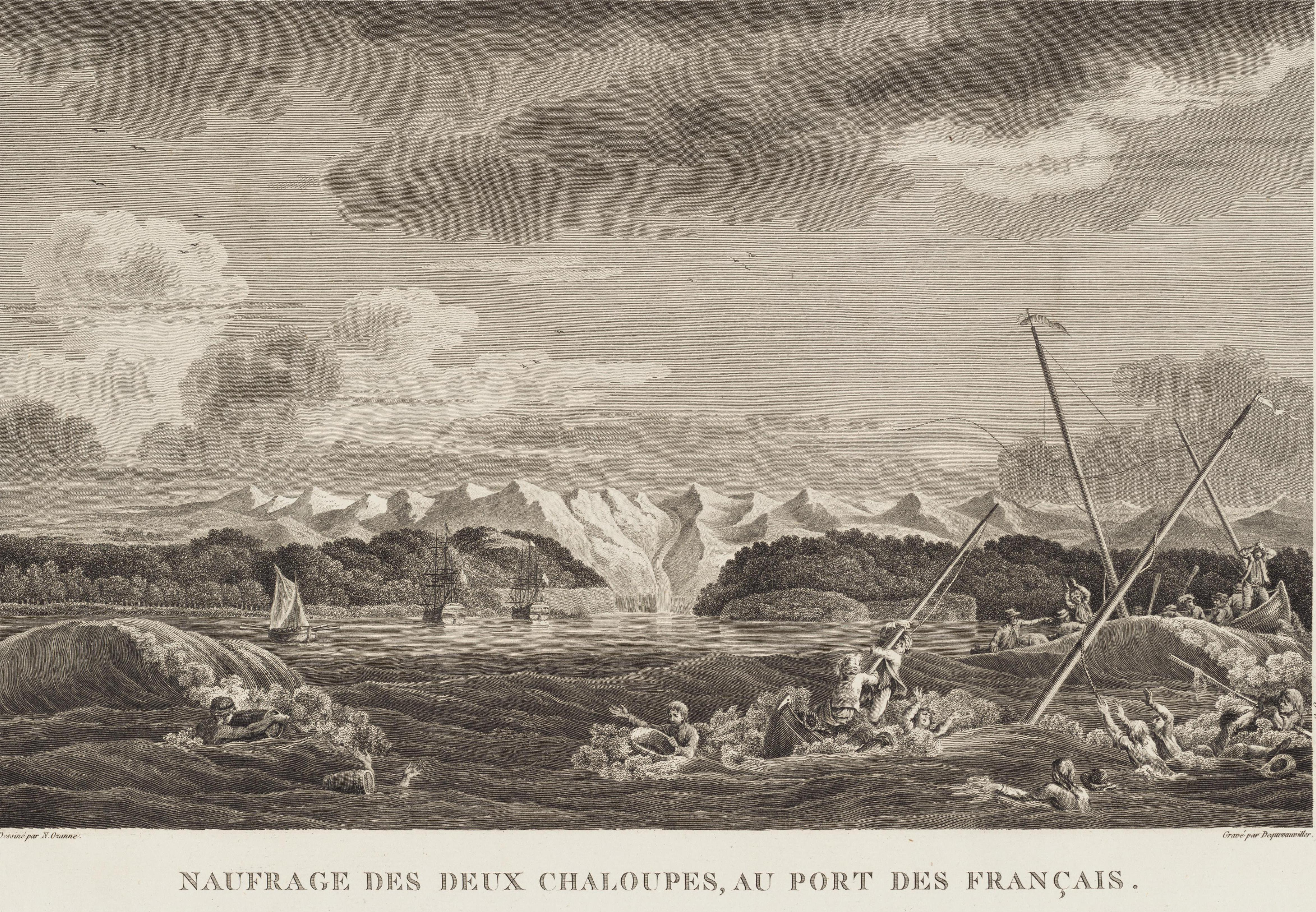 Sinking of two boats in 1786 off Alaska during the expedition of La Perouse in the Pacific Ocean. Engraving N. Ozanne.